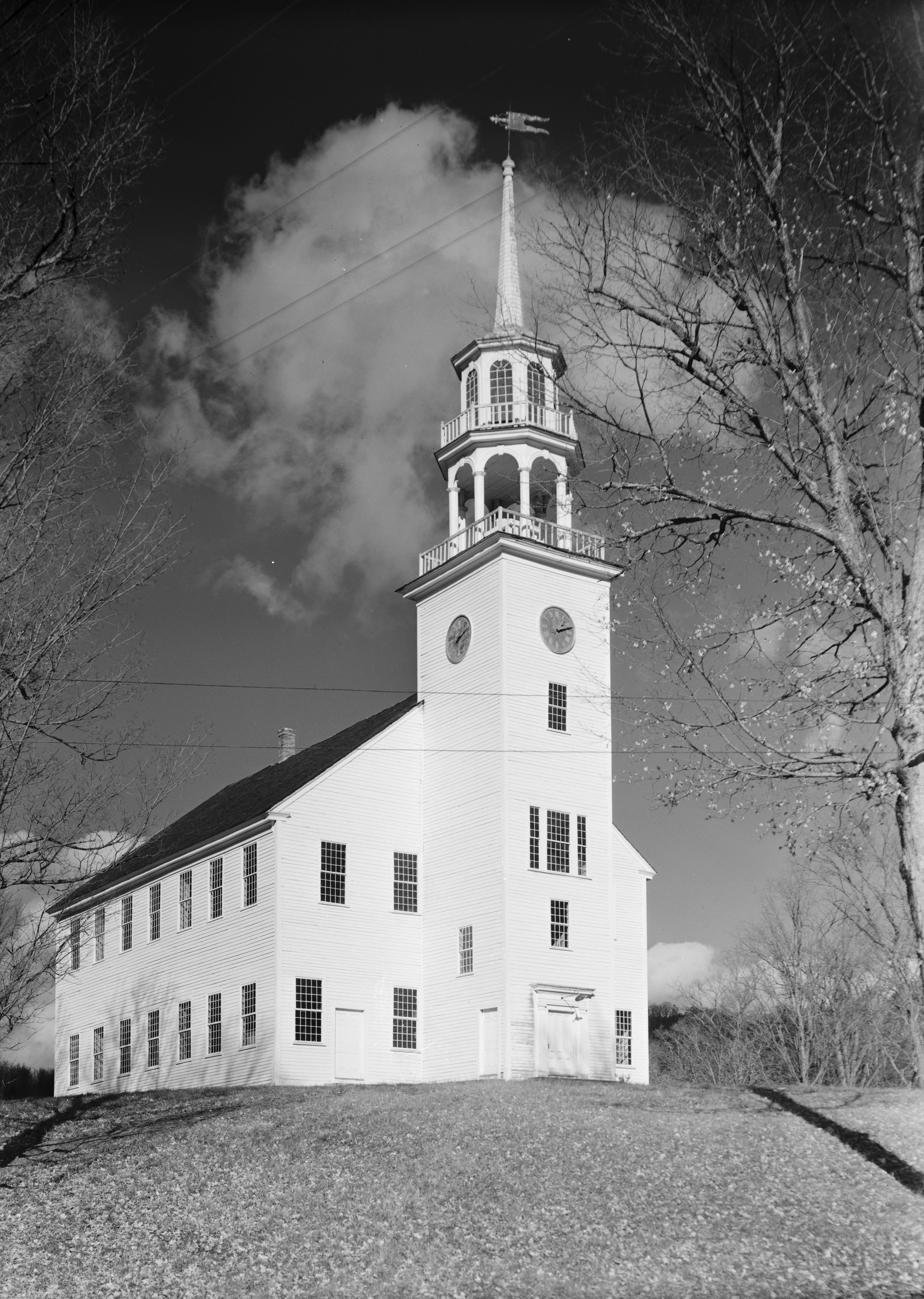 The Strafford Meeting House, located in Strafford, Vermont, USA.